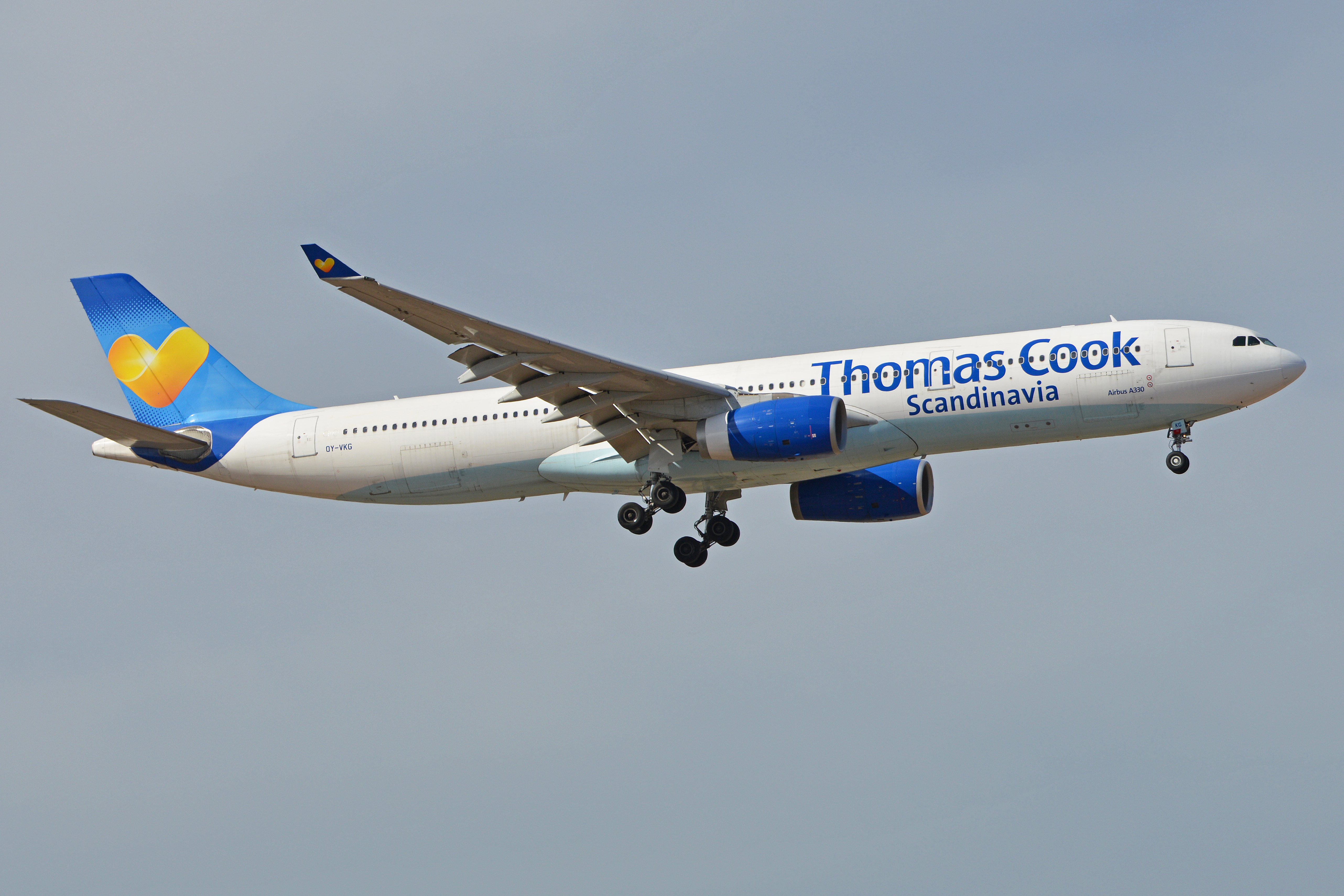 c/n 0349. Built 2000. Arriving on flight VKG5827 from Oslo. Tenerife South Airport, Canary Islands. 17-1-2016